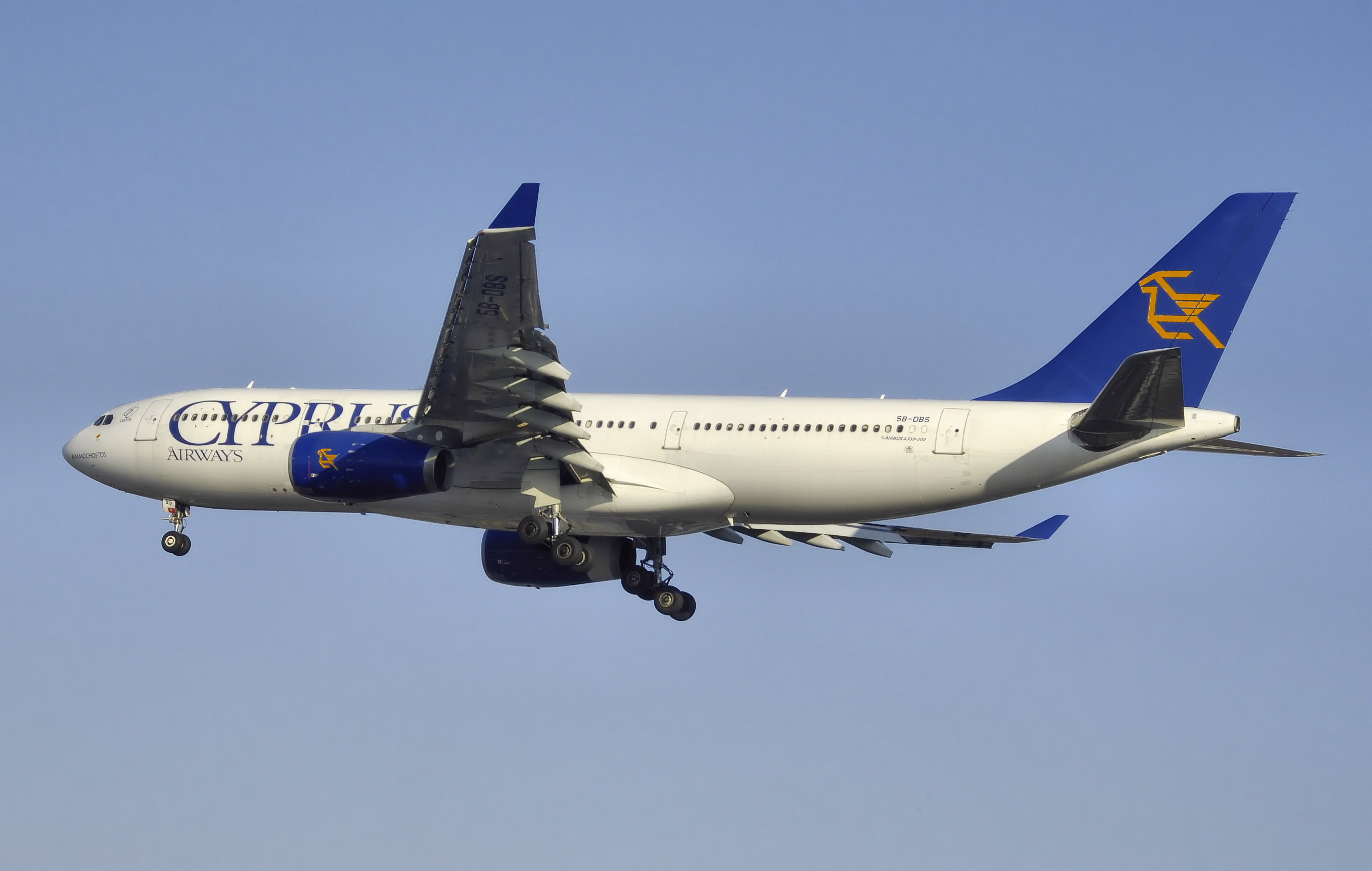 Cyprus Airways A330-200 (5B-DBS) lands at London Heathrow Airport, England.